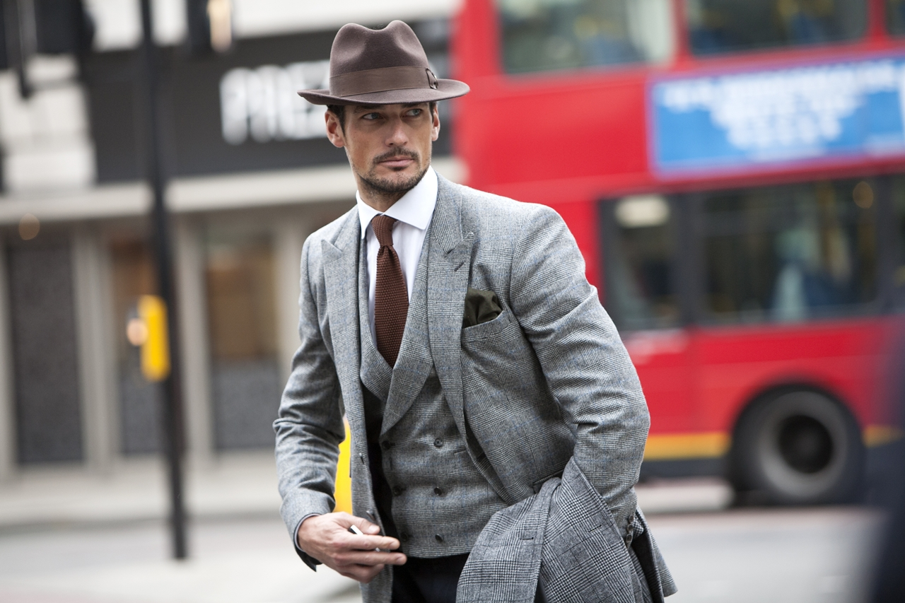 David Gandy street style during London Collections: Men (2013)